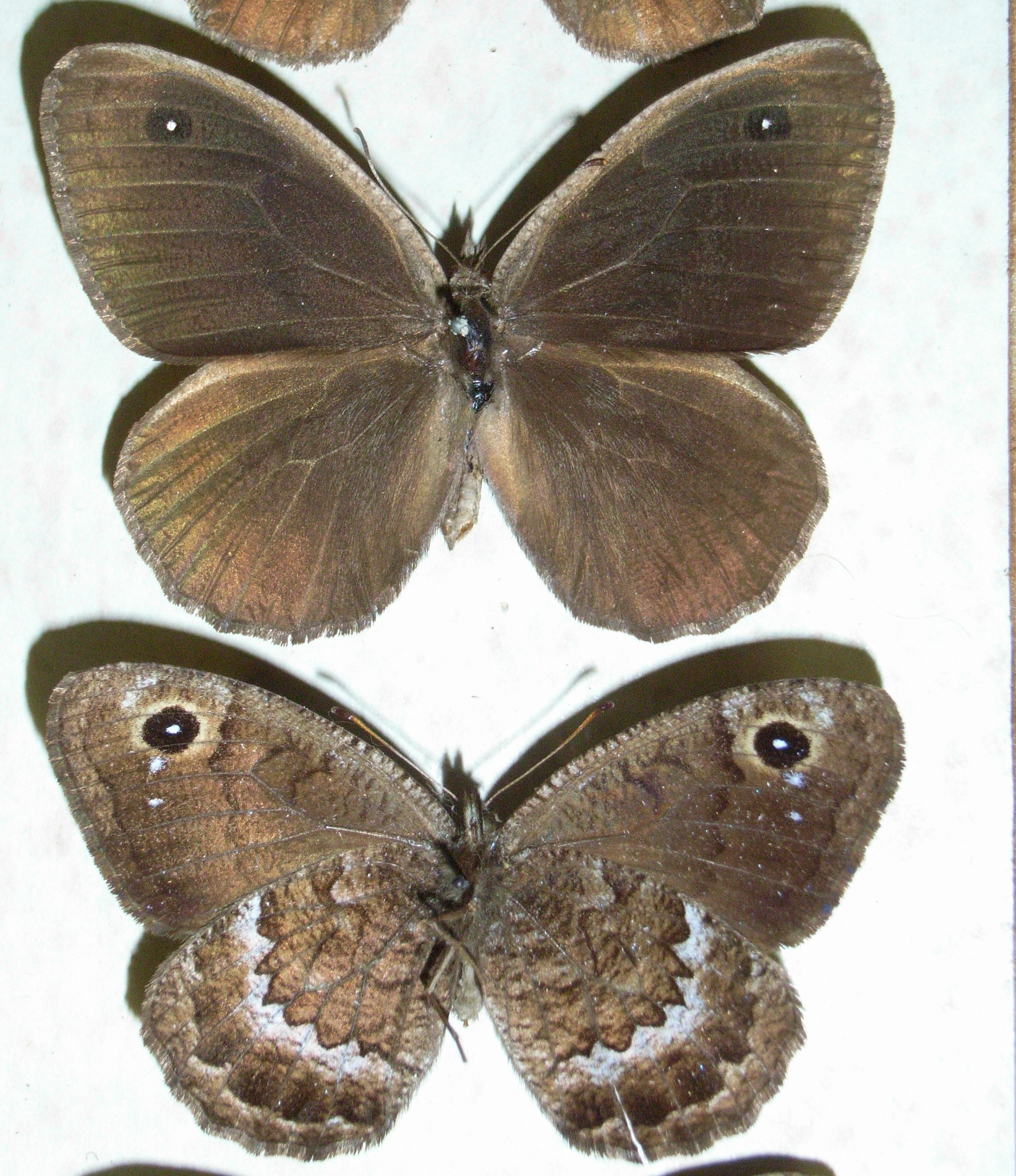 Satyrus actaea (Esper, 1780)